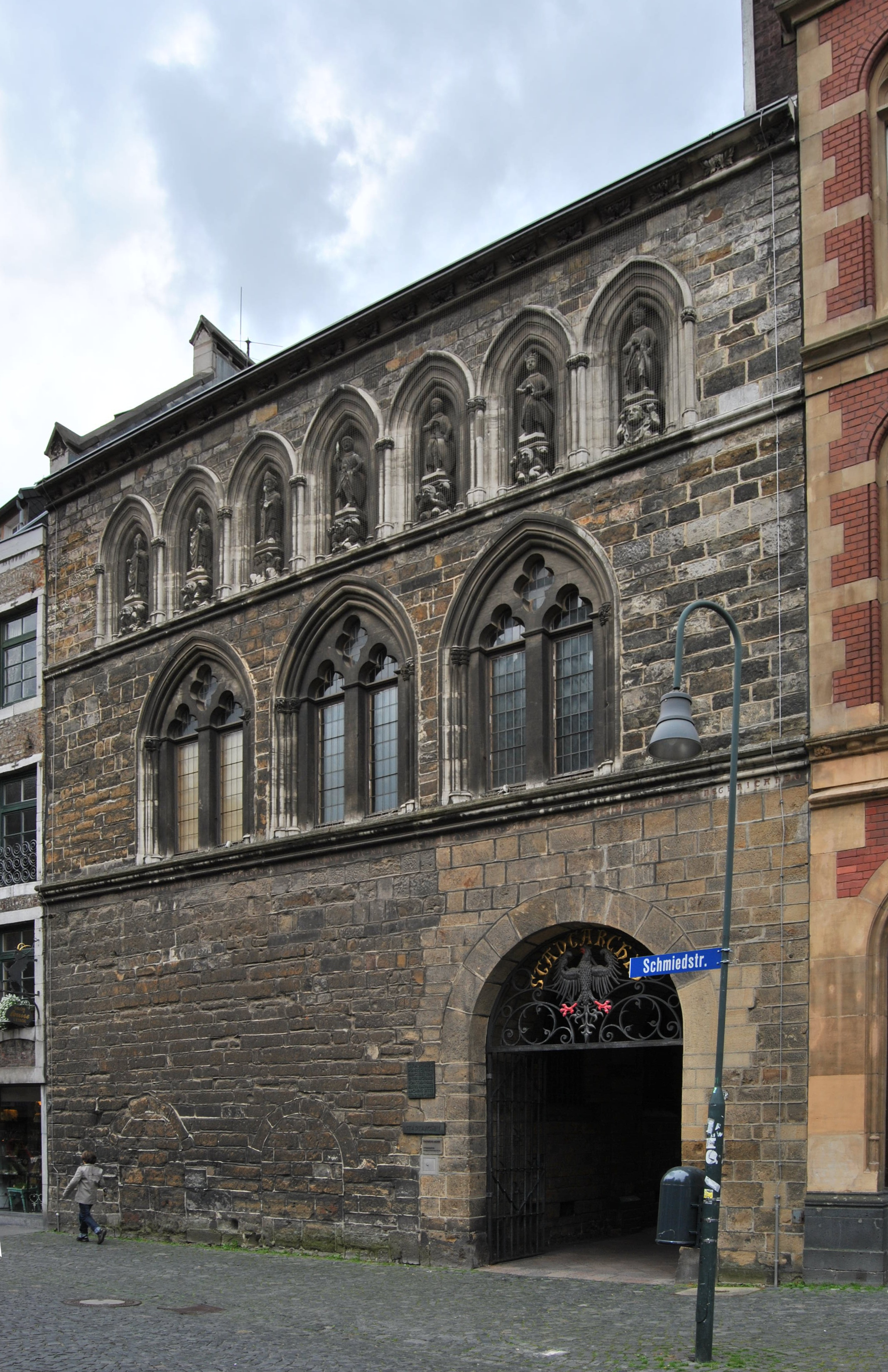 Heritage building ( :w: | ) in Aachen (North Rhine-Westphalia, Germany)